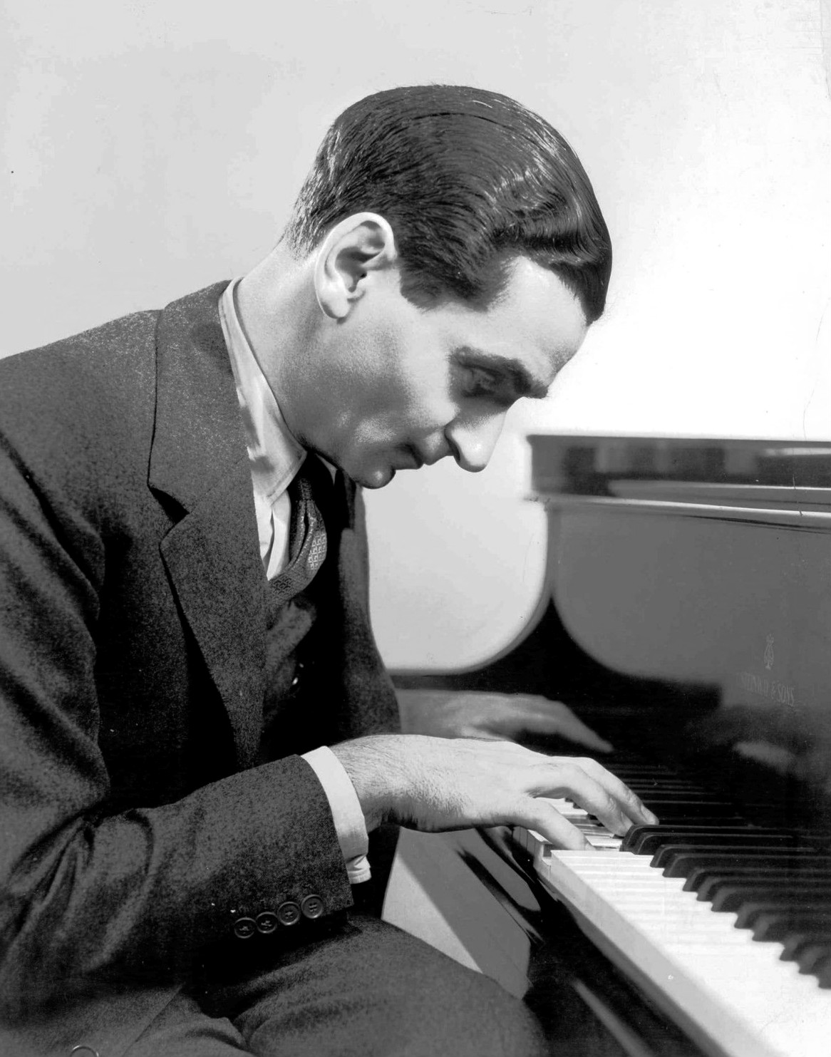 Photo of Irving Berlin.